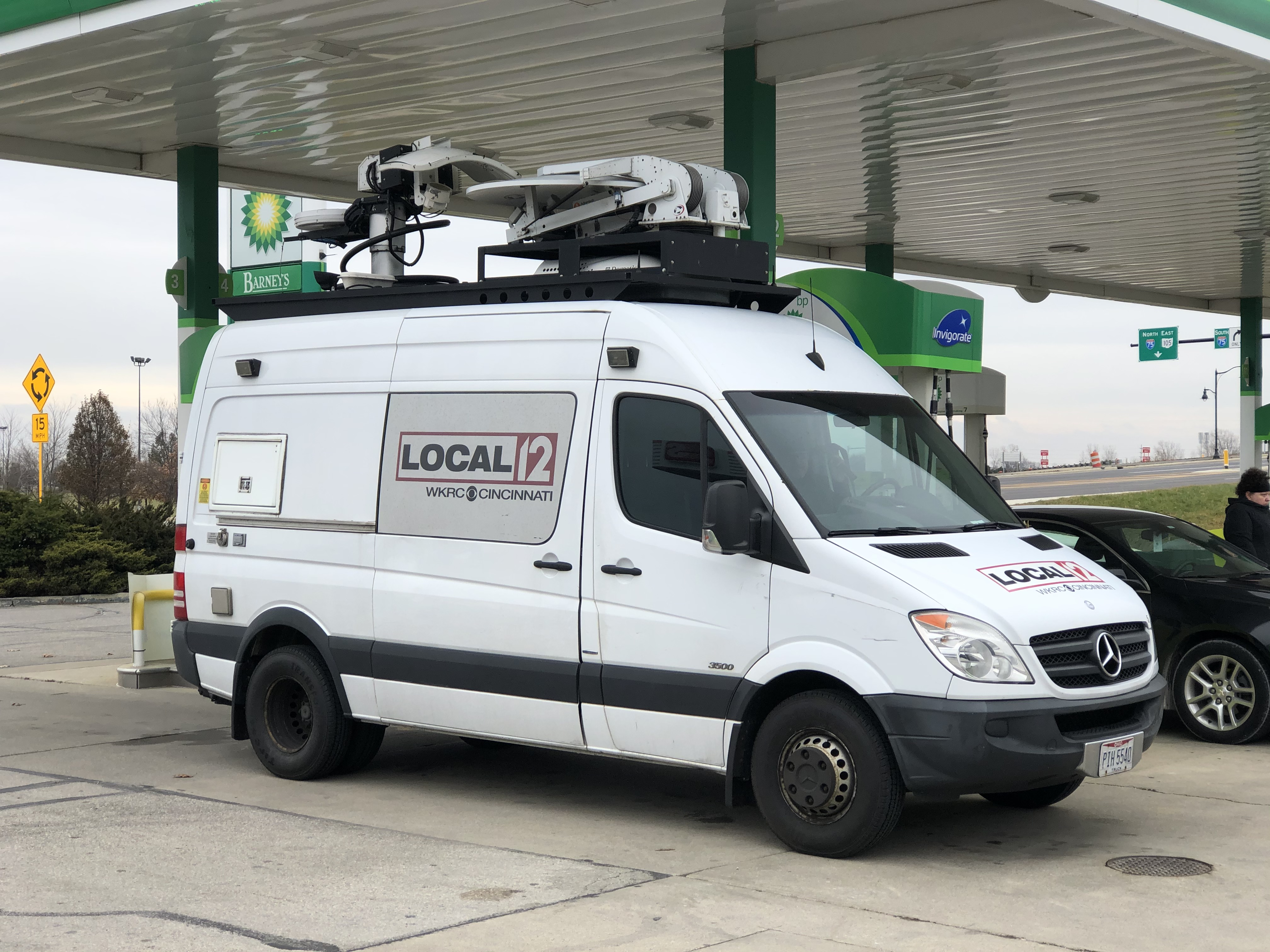 WKRC Truck in Bowling Green, Ohio